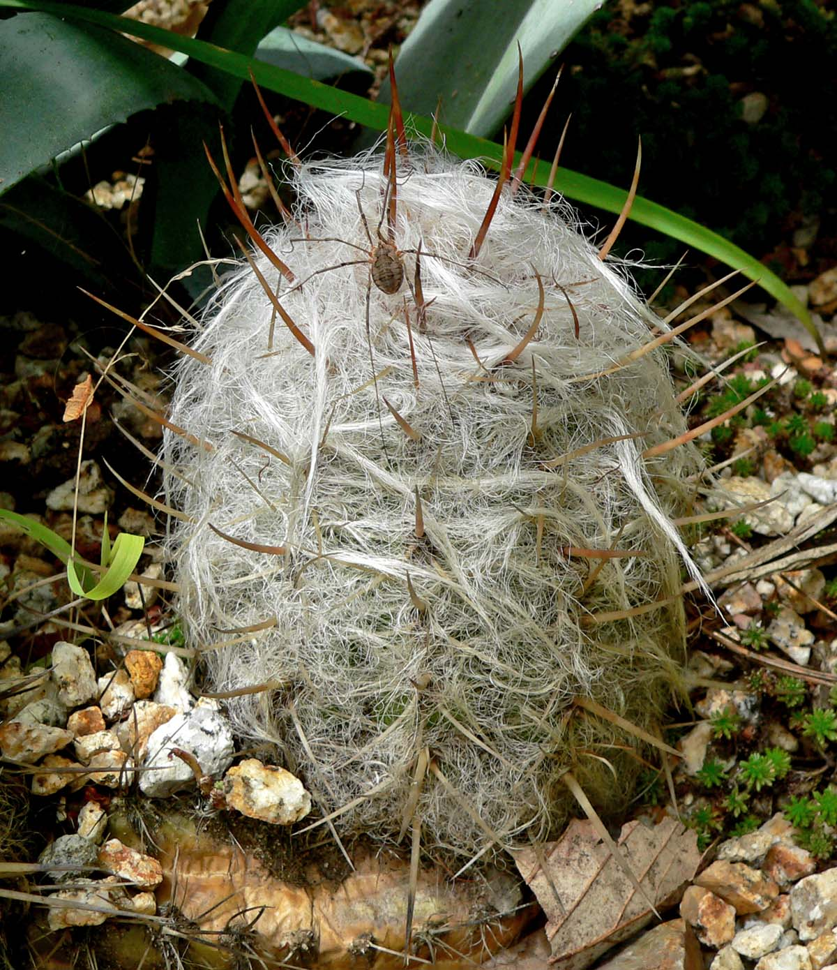 Photo of Oreocereus celsianus at the San Francisco Botanical Garden